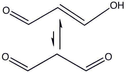 equilibrium mix of malondialdehyde